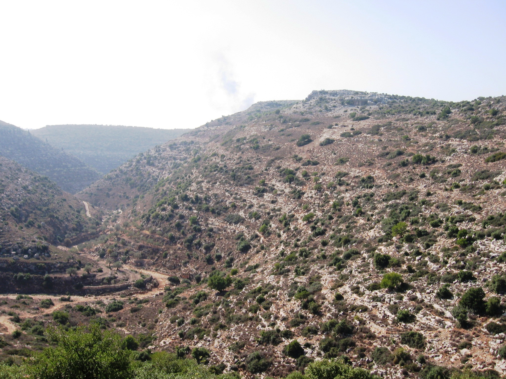 Admot_medina near Kana river